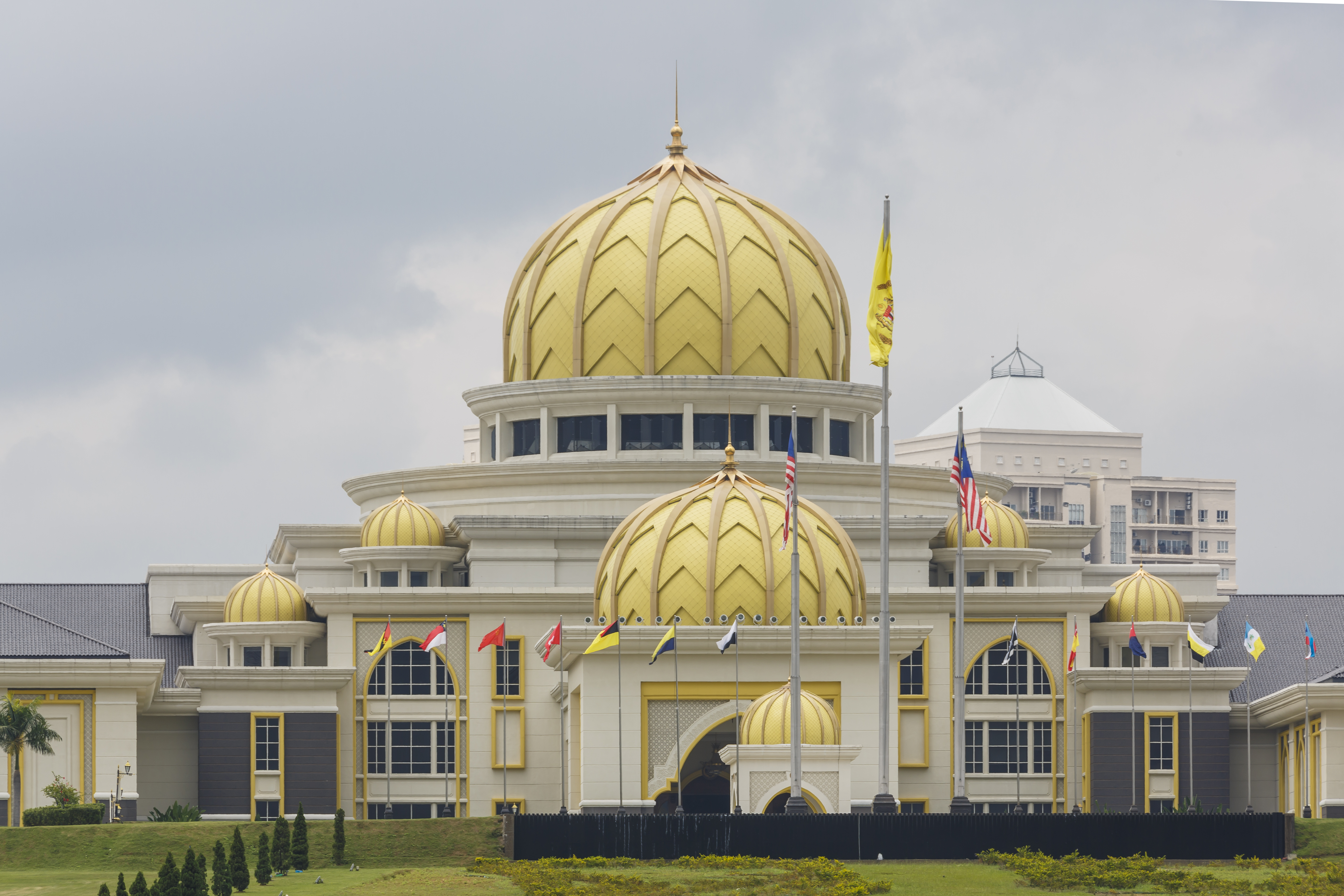 Kuala Lumpur, Malaysia: New Royal Palace in Jalan Duta (Istana Negara, Jalan Duta). Photo taken from a distance of 550 m.